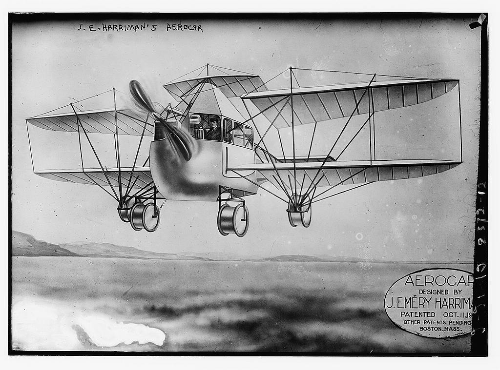 Bain News Service,, publisher. J. E. Harriman's Aerocar [between 1910 and 1915] 1 negative : glass ; 5 x 7 in. or smaller. Notes: Title from unverified data provided by the Bain News Service on the negatives or caption cards. Forms part of: George Grantham Bain Collection (Library of Congress). Subjects: Airplanes Format: Glass negatives. Repository: Library of Congress, Prints and Photographs Division, Washington, D.C. 20540 USA, General information about the Bain Collection is available at Persistent URL: Call Number: LC-B2- 2372-12